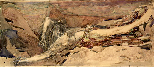 Study of russian artist Mikhail Vrubel for Fallen Demon